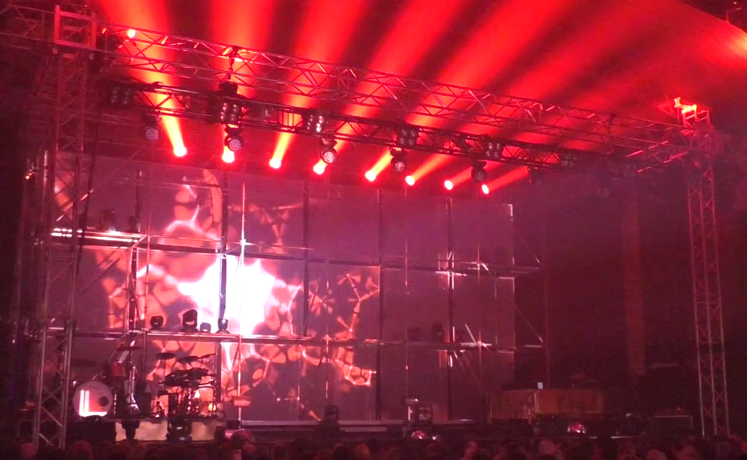 German Pop-Schlager-Singer Vanessa Mai during her "Für Dich Tour" at Alter Schlachthof, Dresden, Germany (24th October 2016).